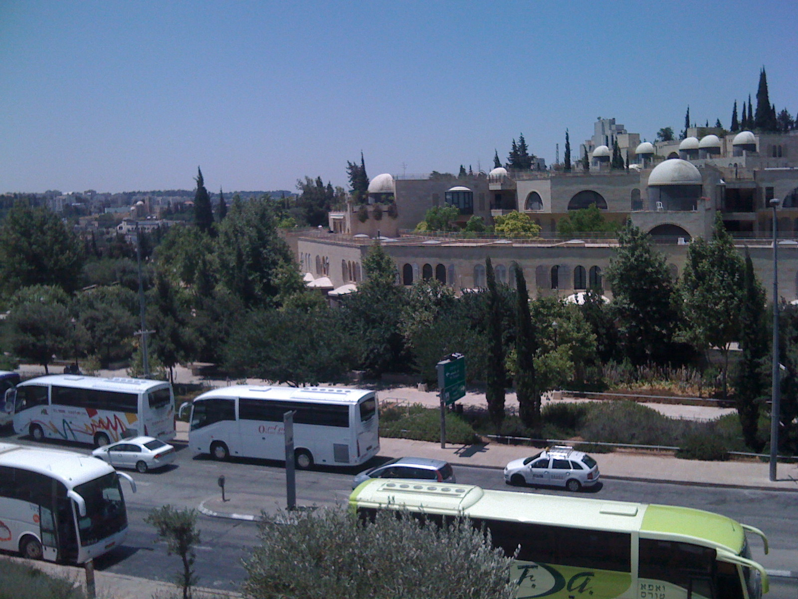 Jerusalem, view from mamila mall to Kfar David.